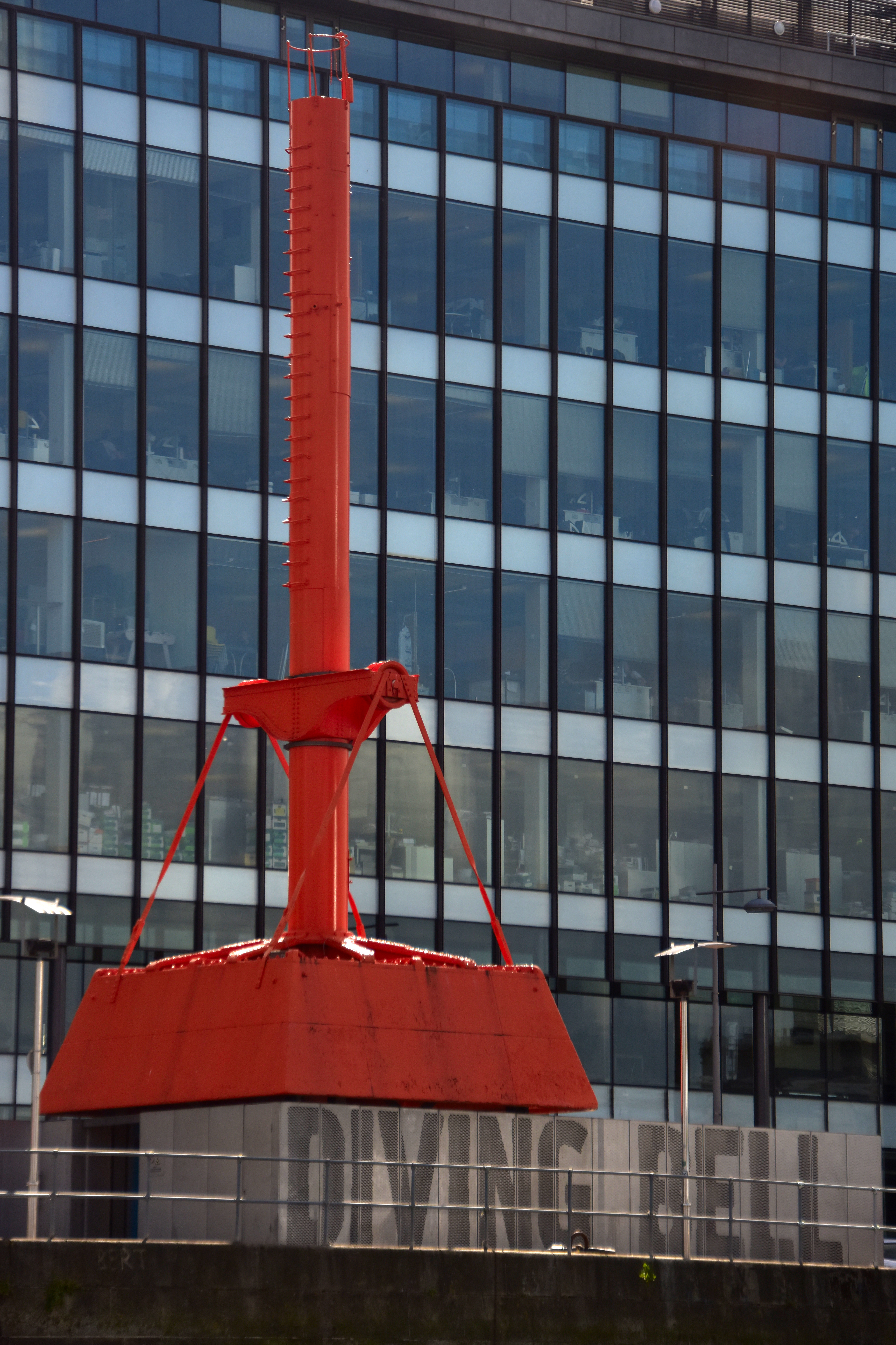 An old diving bell on Sir John Rogerson's Quay, Dublin, that was once used to excavate the riverbank along the quays.